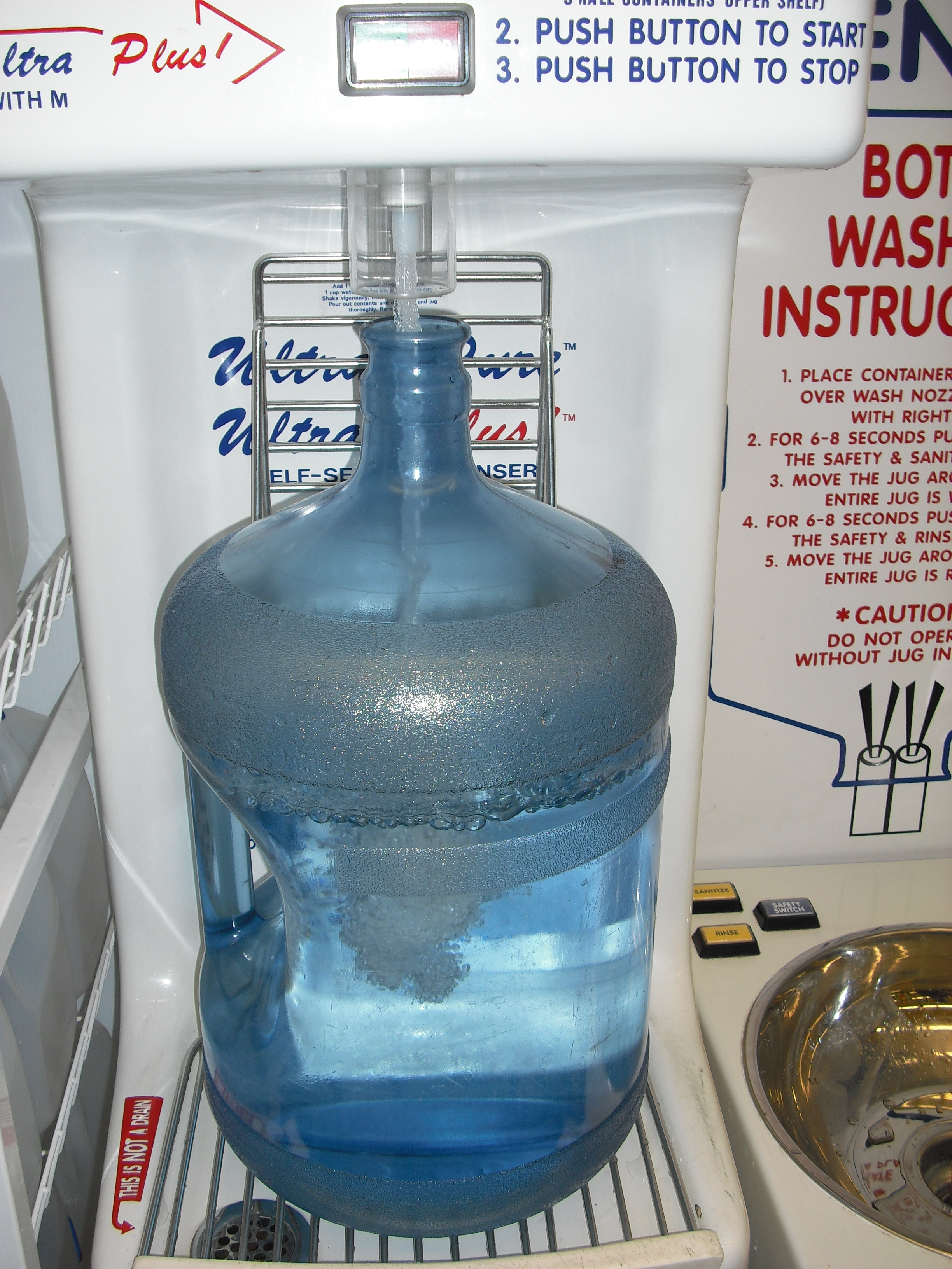 I Myke waddy took this photo. Canada. Myke Waddy the creator of this work, hereby releases it into the public domain.